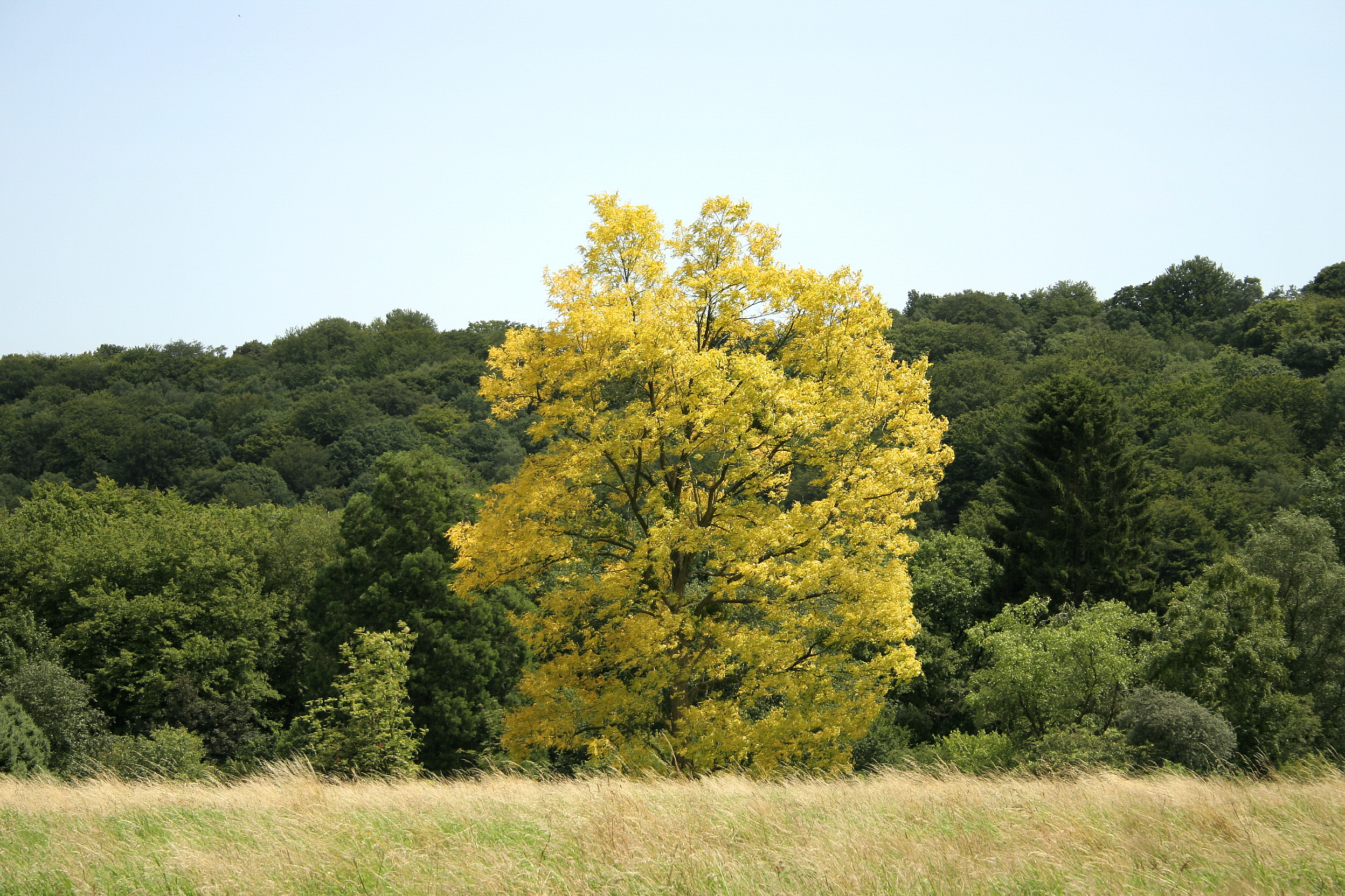 Black locust 'Frisia' .